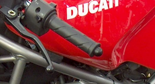 Handle grip vibration damper on a Ducati M 620 Monster motorcycle.